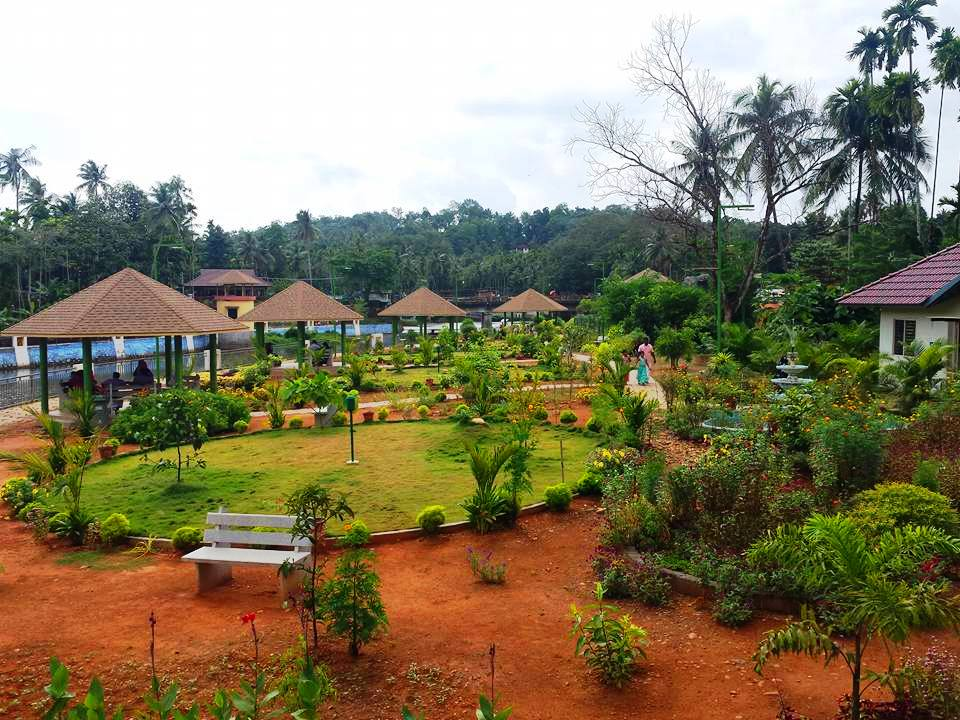 cherumba eco tourism